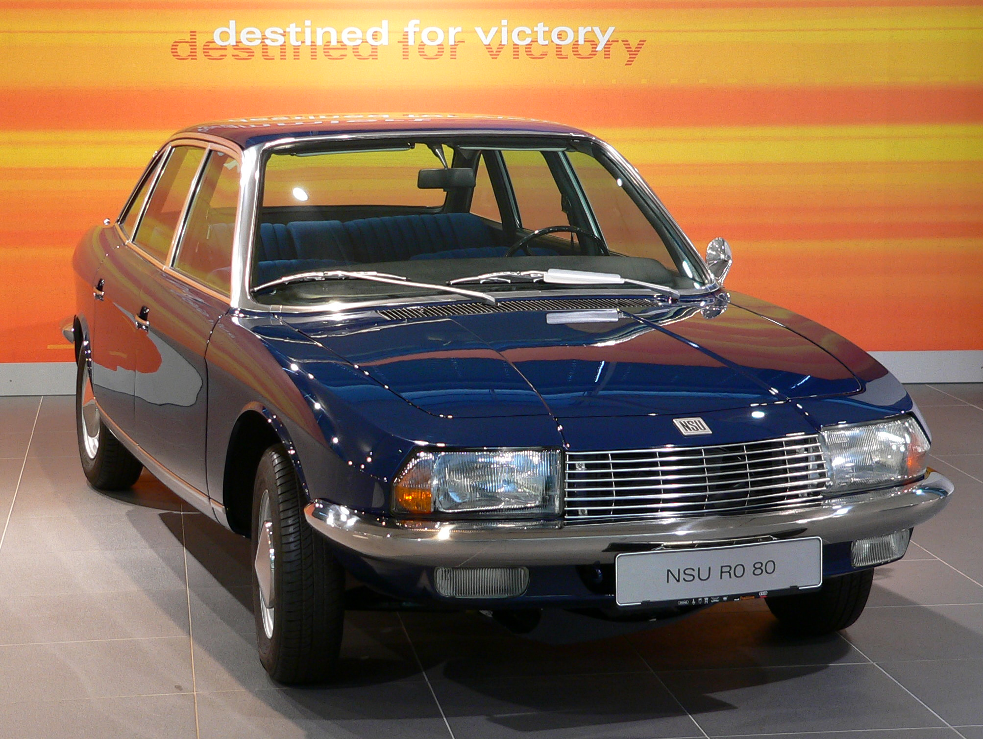 "NSU Ro 80" at the Exhibition of historical vehicles in the Audi-Forum of the Audi AG in the City Neckarsulm/Germany